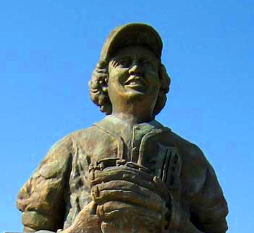 Statue of Aurelio Lopez in his Mexican hometown of Tecamachalco, Puebla.